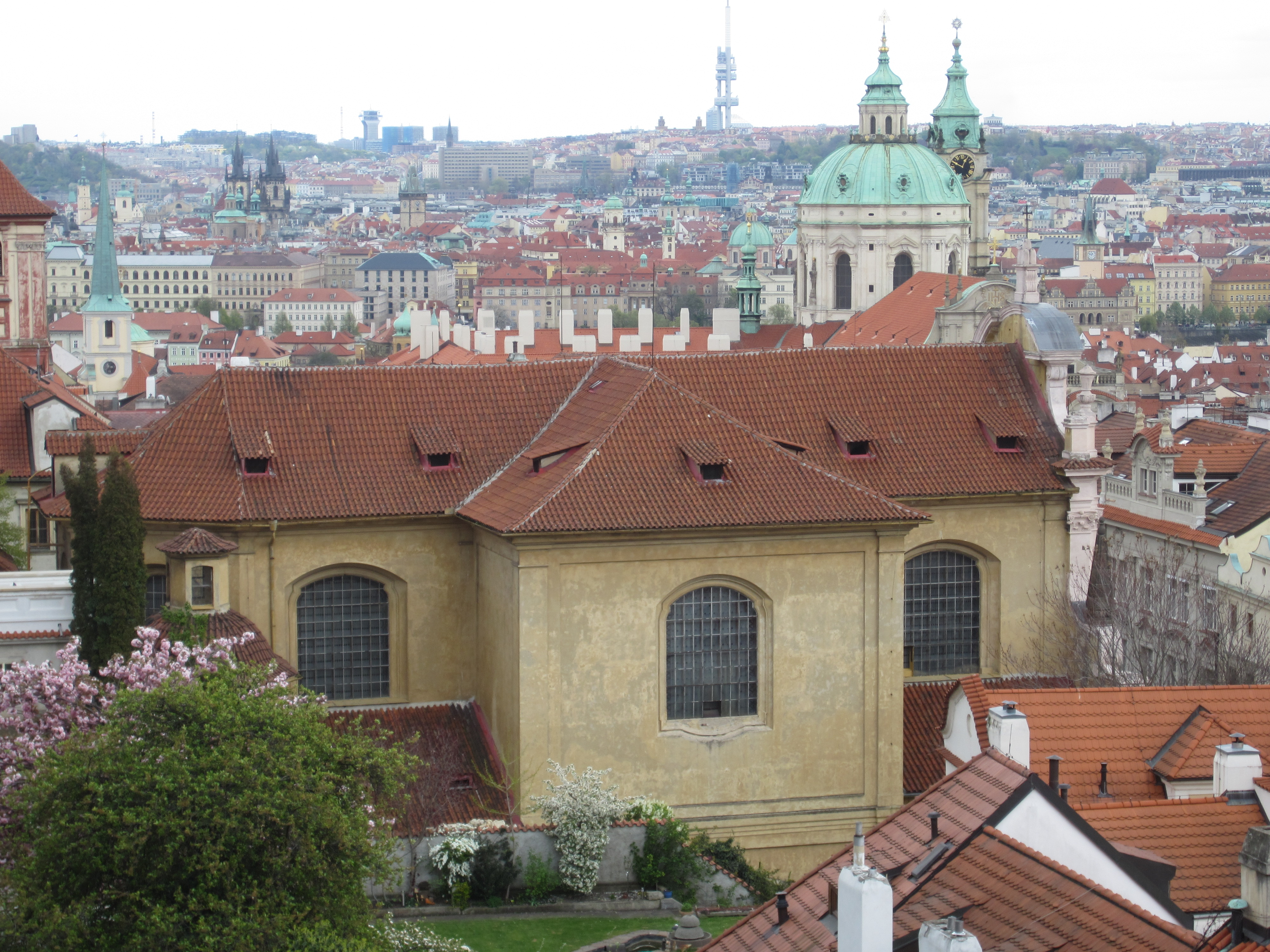 Prague, Czech Republic, April 2016